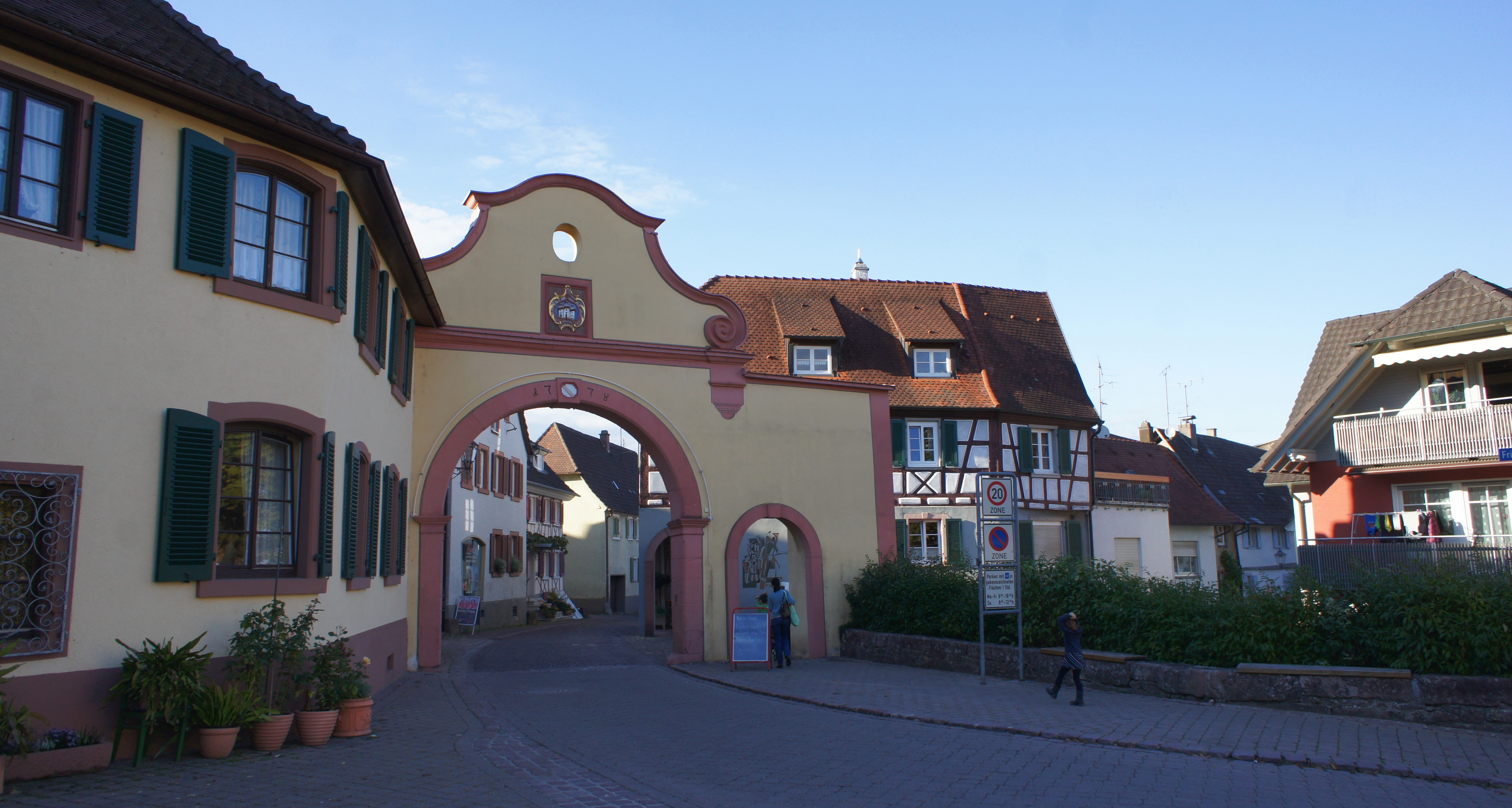 One of the renaissance gate of the old town of Ettenheim